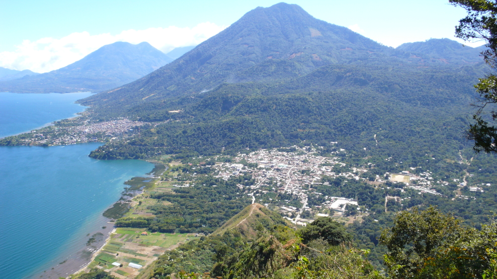 San Juan La Laguna y el volcán de San Pedro, Sololá, Guatemala C.A.